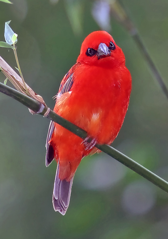 Foudia madagascariensis - Madagascar Fody (male) on Madagascar